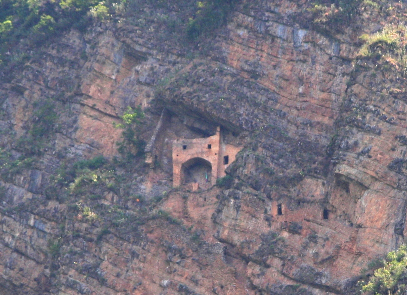 Fortress of Peri near Yukhary Chardakhlar village of Zaqatala Rayon of Azerbaijan. Built in the 3rd-4th cc.